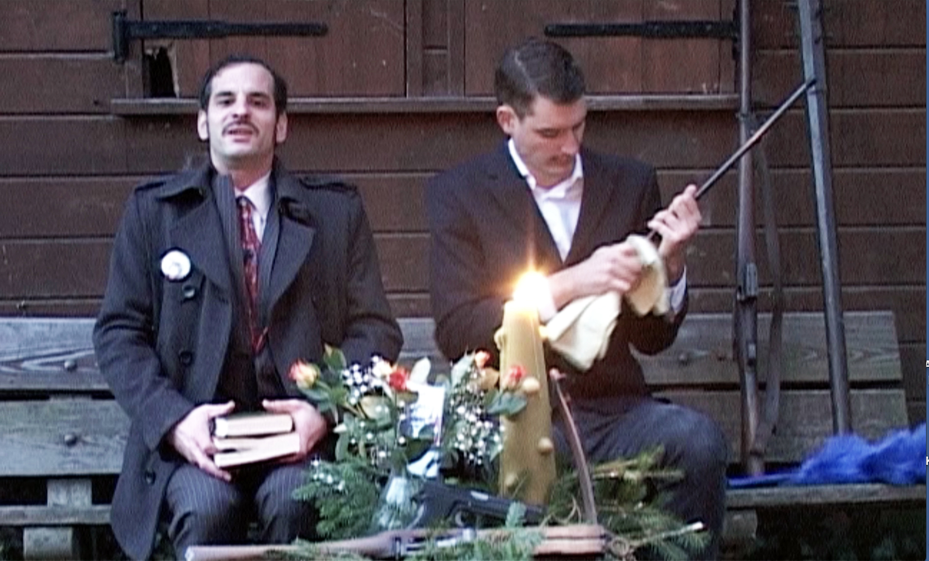 A Christian commentary on current affairs with the two exponents of KEH